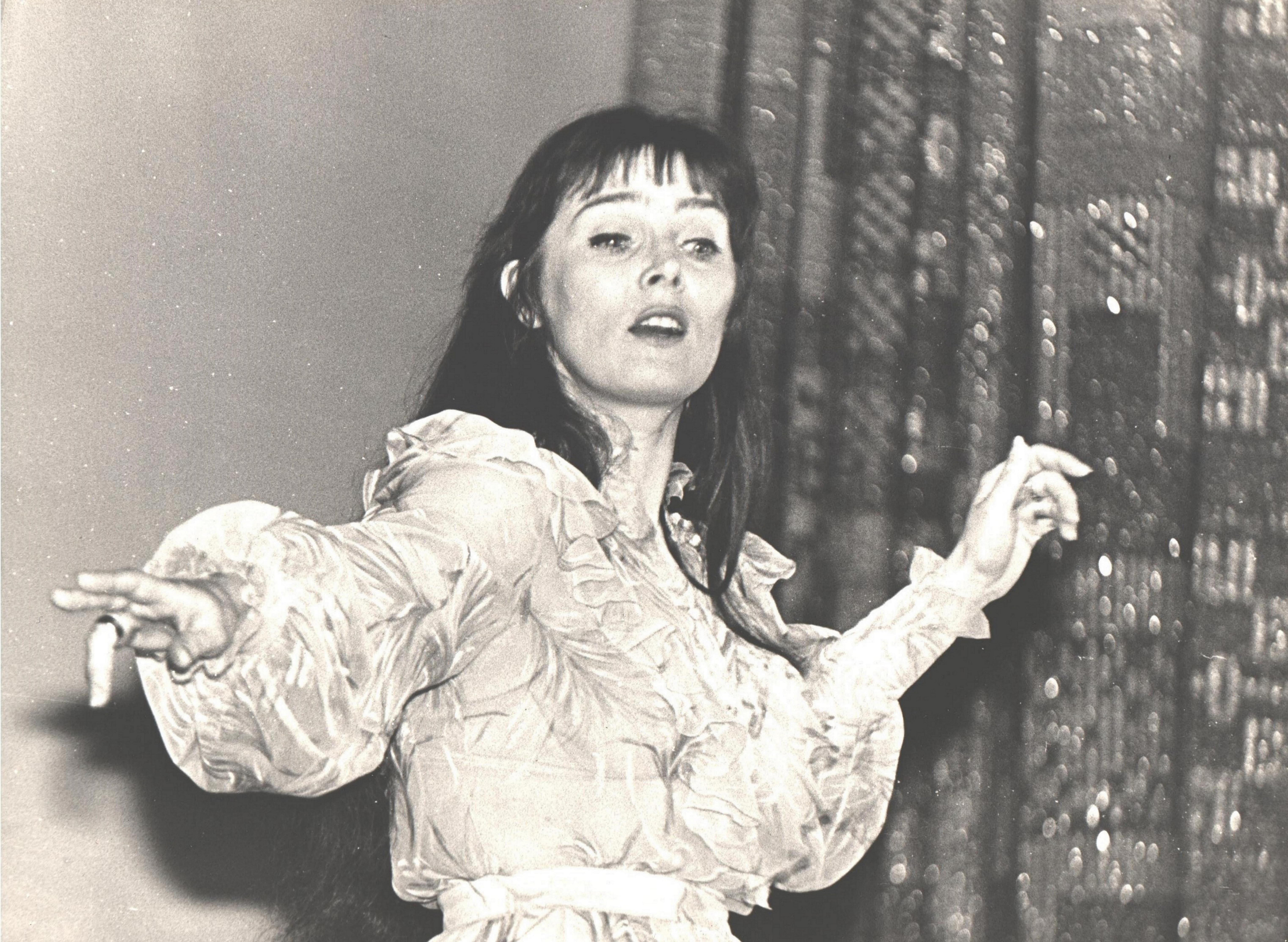 Olena Chekan in the personal author's performance Marina Tsvetaeva «WITH A RED BRUSH ...» (literary one-person show) Kiev Film Actors' Theatre - stage director Ms.Olga Boytsova, 1983 year